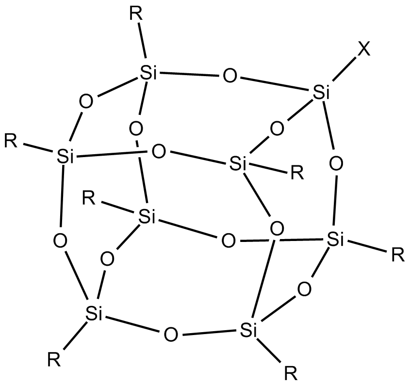 T8 cubic structure of Silsesquioxane